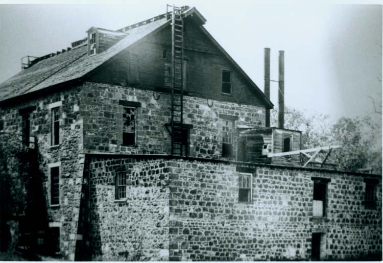 Forbes Mill, Los Gatos, California